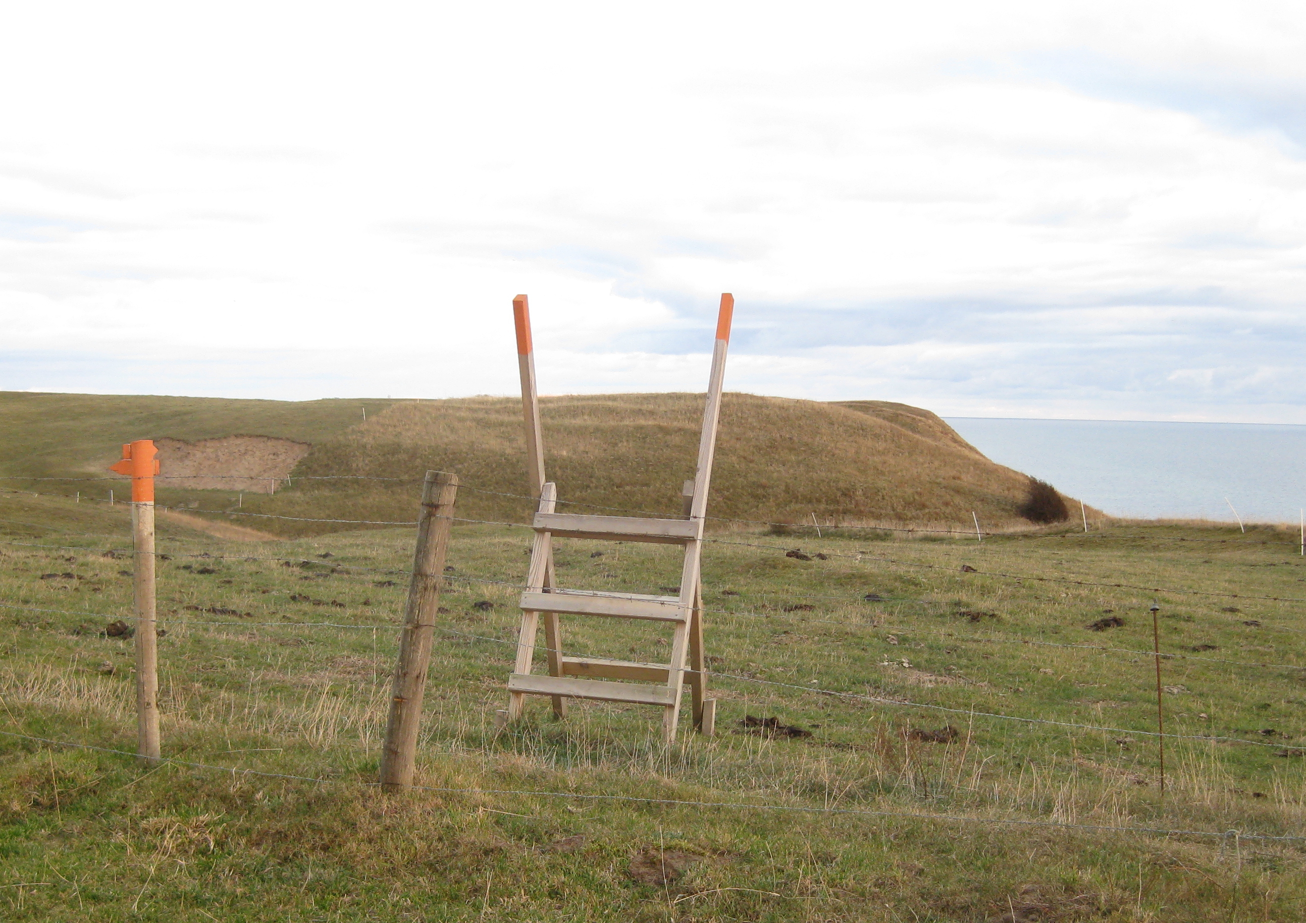 The Skåne trail at Hammars backar east of Ystad, Sweden